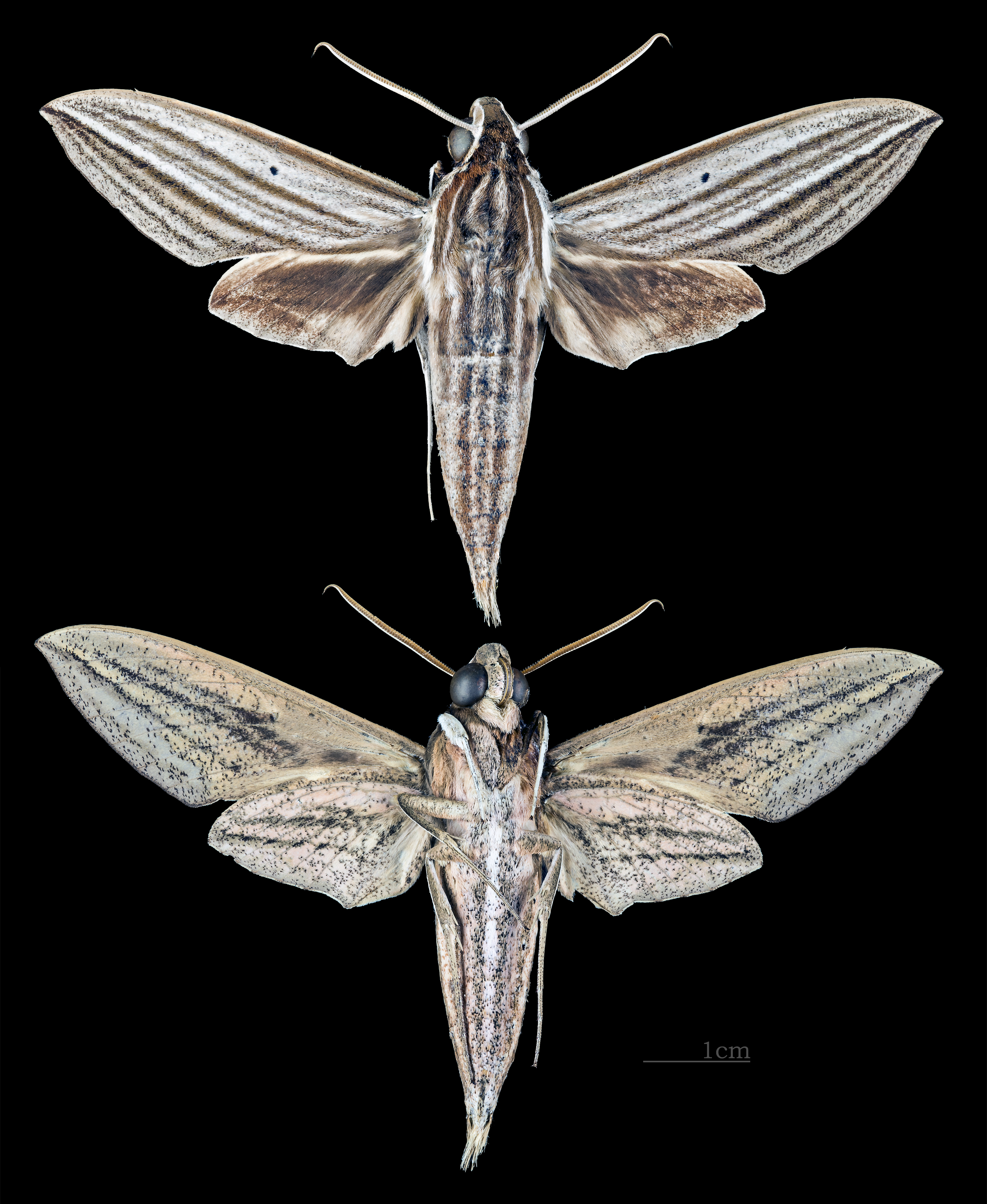 Theretra polistratus - Two views of same specimen Collection of the Mathematician Laurent Schwartz